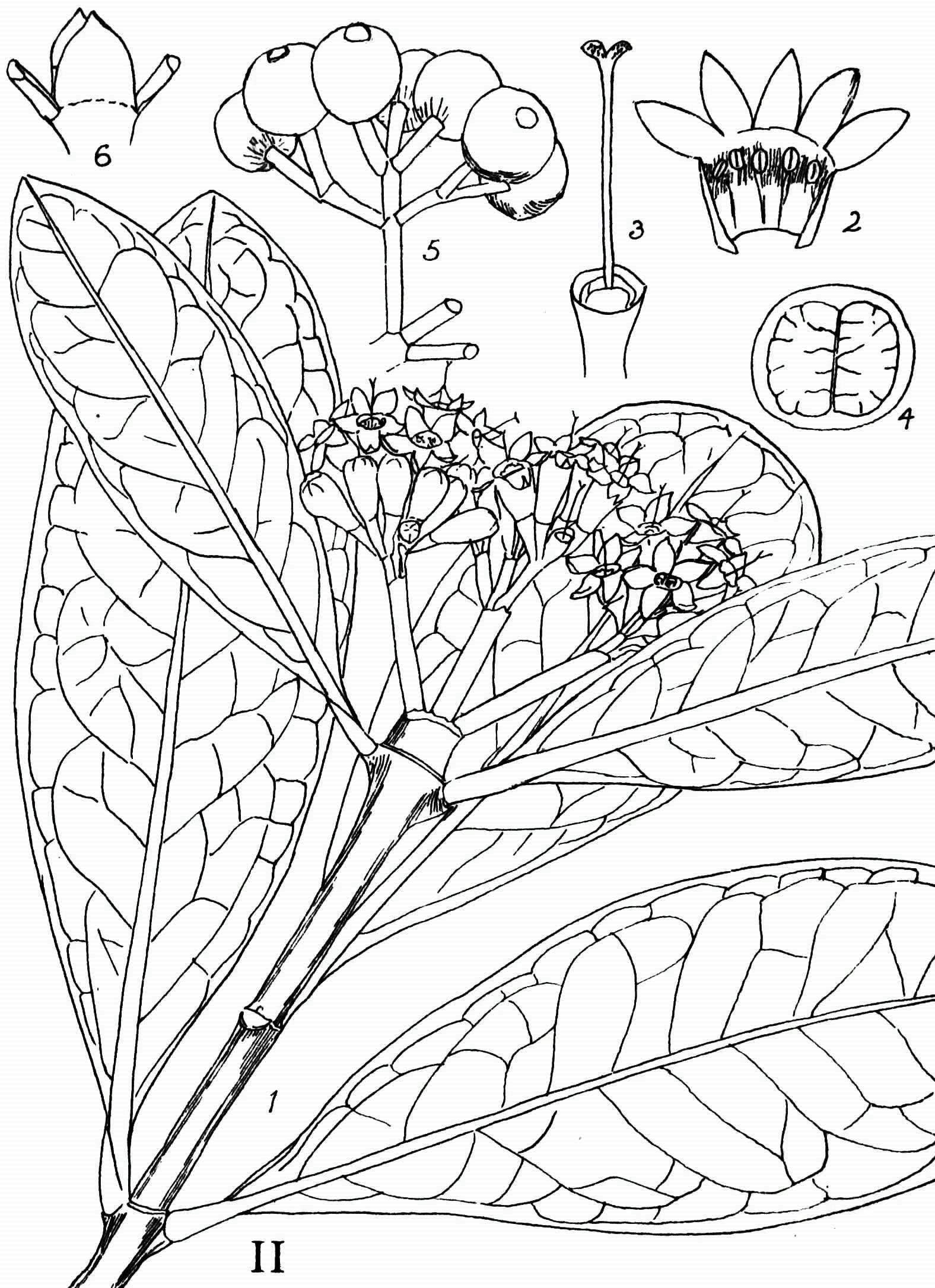 Line drawing of Psychotria capensis